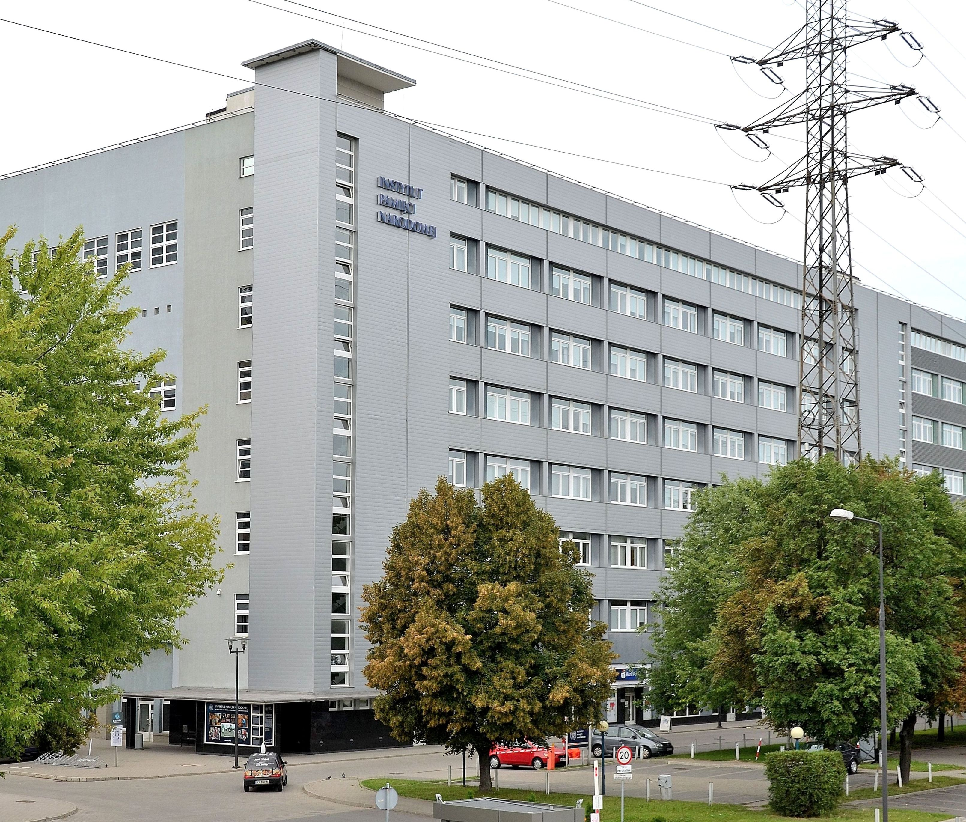 Seat of the Institute of National Rememebrance at 7 Wołoska Street in Warsaw